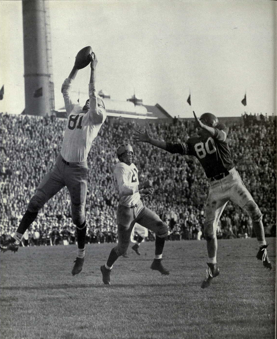 Photograph of Bob Topp making a catch for the 1953 Michigan Wolverines football team in a game against Michigan State College This work is in the public domain because it was published in the United States between 1923 and 1963 and although there may or may not have been a copyright notice, the copyright was not renewed. Unless its author has been dead for the required period, it is copyrighted in the countries or areas that do not apply the rule of the shorter term for US works, such as Canada (50 pma), Mainland China (50 pma, not Hong Kong or Macao), Germany (70 pma), Mexico (100 pma), Switzerland (70 pma), and other countries with individual treaties. See Commons:Hirtle chart for further explanation. This work is in the public domain because it was published in the United States between 1923 and 1977 and without a copyright notice. Unless its author has been dead for several years, it is copyrighted in jurisdictions that do not apply the rule of the shorter term for US works, such as Canada (50 p.m.a.), Mainland China (50 p.m.a., not Hong Kong or Macao), Germany (70 p.m.a.), Mexico (100 p.m.a.), Switzerland (70 p.m.a.), and other countries with individual treaties. See this page for further explanation.